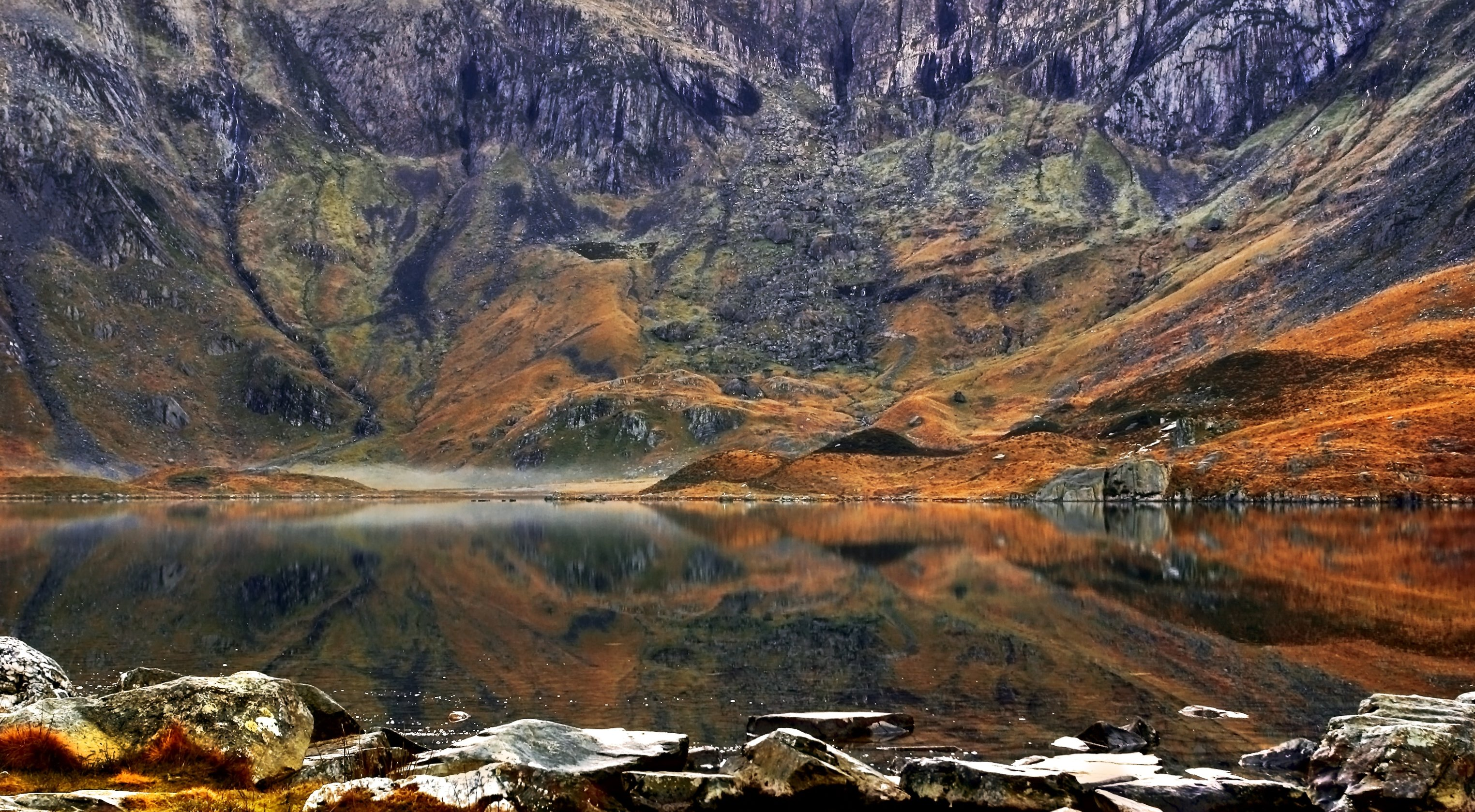 Cwm Idwal and Llyn Idwal, 2006 Just trawling through the archives and found a batch from an early hop up to Cwm Idwal. I remember we arrived at the lake just as the last of the winter mist crept back into the distance.